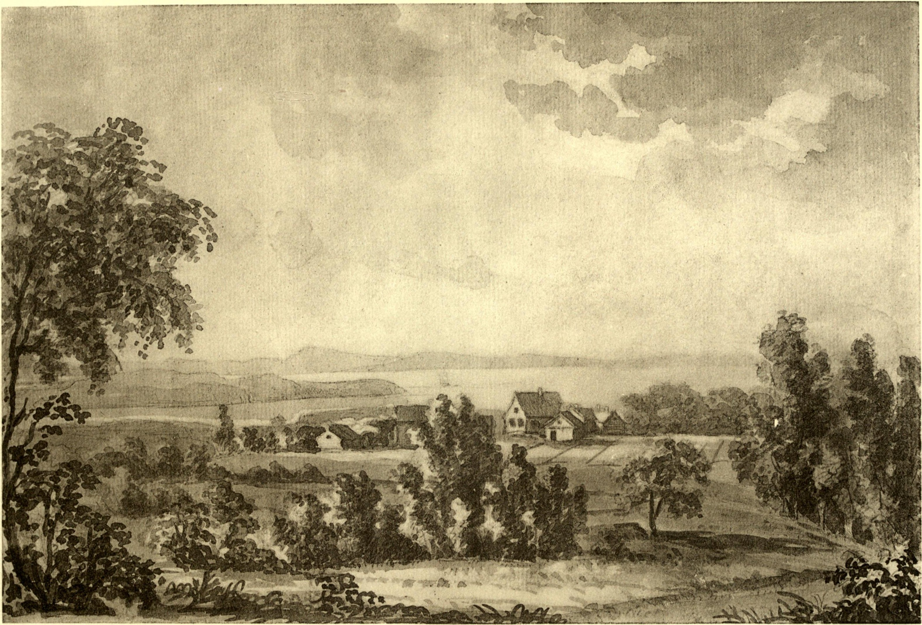 Finnøy, the birth place of Niels Henrik Abel, painted by Thomas Fearnley.